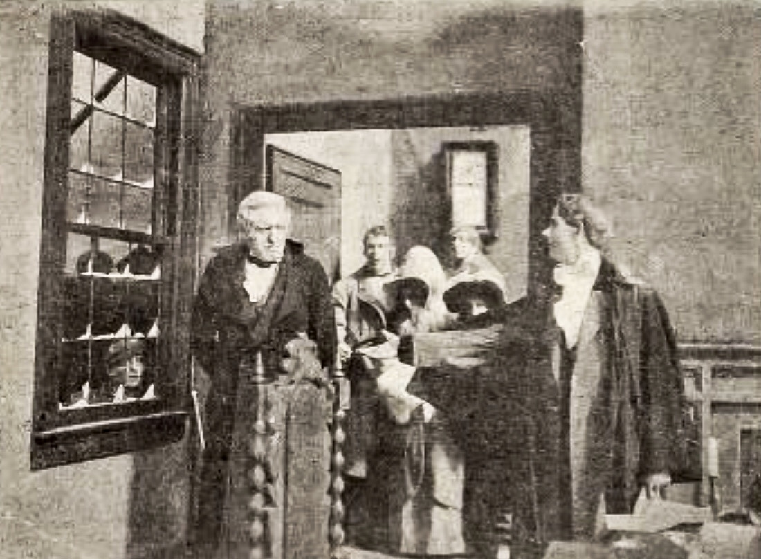 Film still from Edison 1910 release A Christmas Carol; published in The Film Index (New York City), December 10, 1910, p. 28; actors in foreground are (left) Marc McDermott as Ebenezer Scrooge and Charles Ogle as Bob Cratchit.